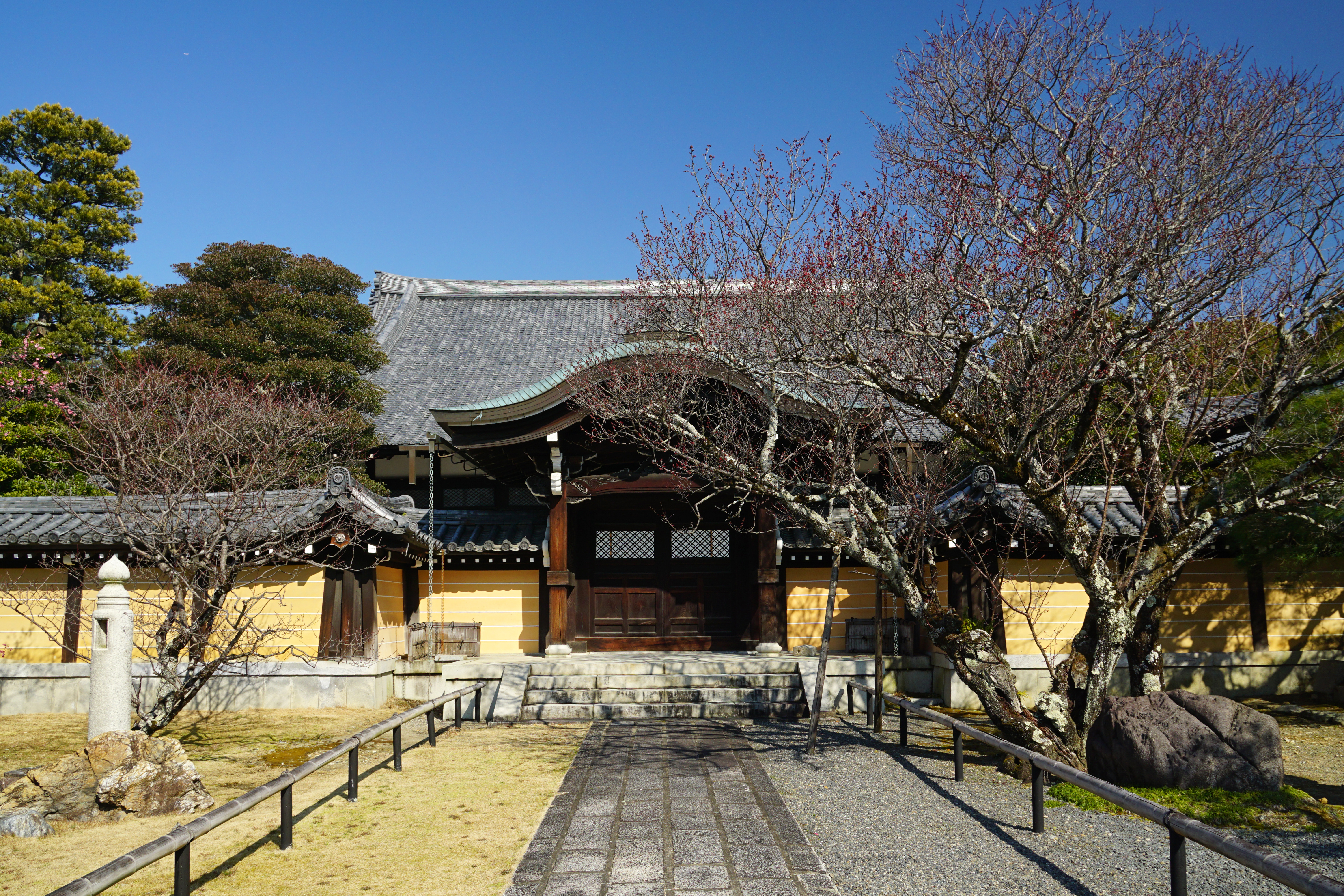 Konkaikōmyō-ji in Kyoto, Kyoto prefecture, Japan